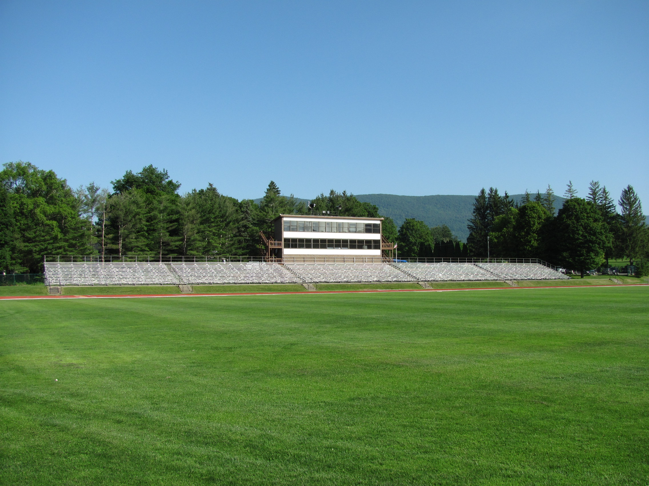 Weston Field, Williamstown Massachusetts